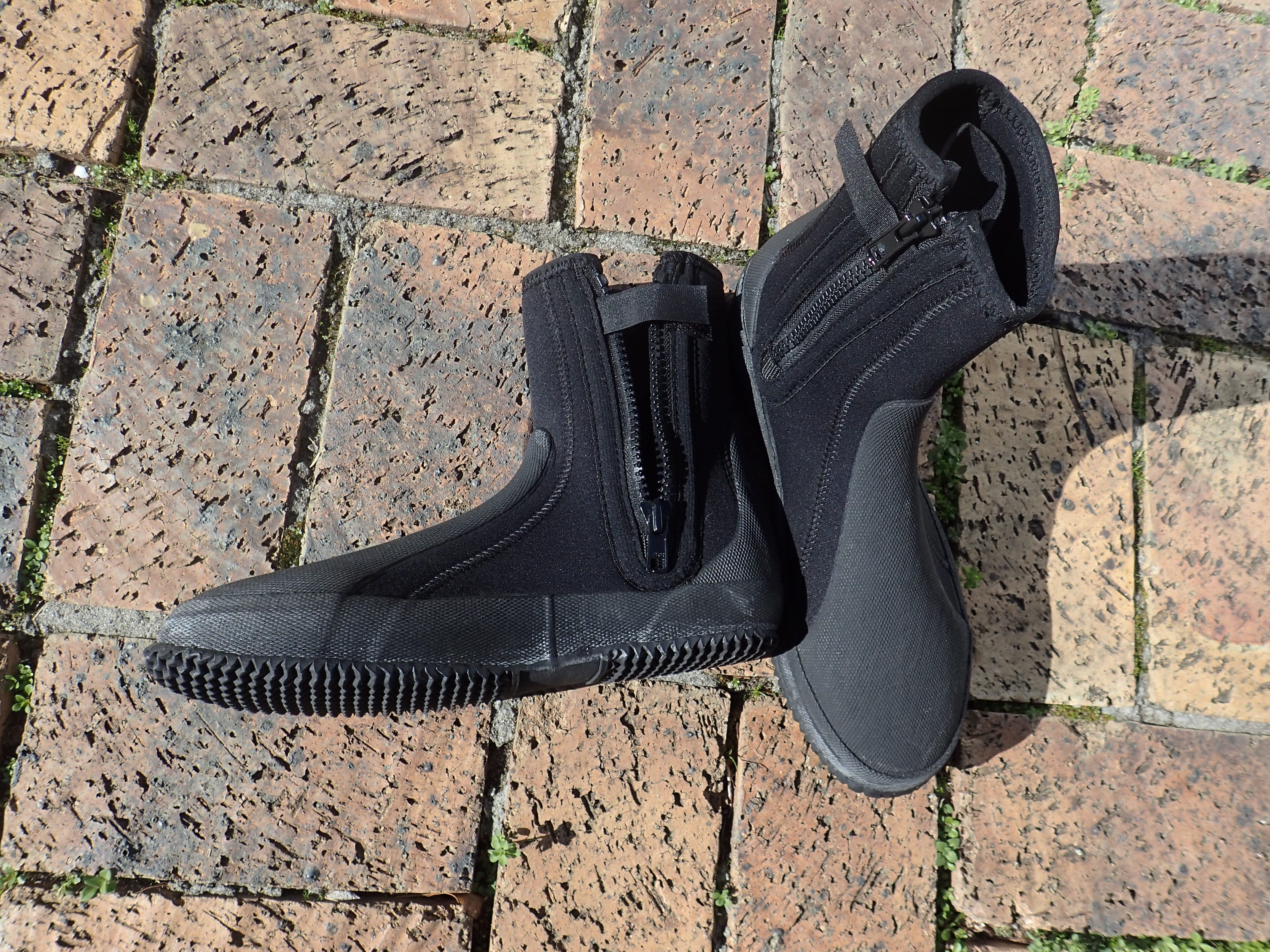 Pair of hard soled wetsuit boots with zip fasteners and internal cover flaps